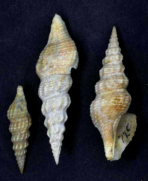 Clathrodrillia flavidula (Lamarck, 1822); family Drillidae